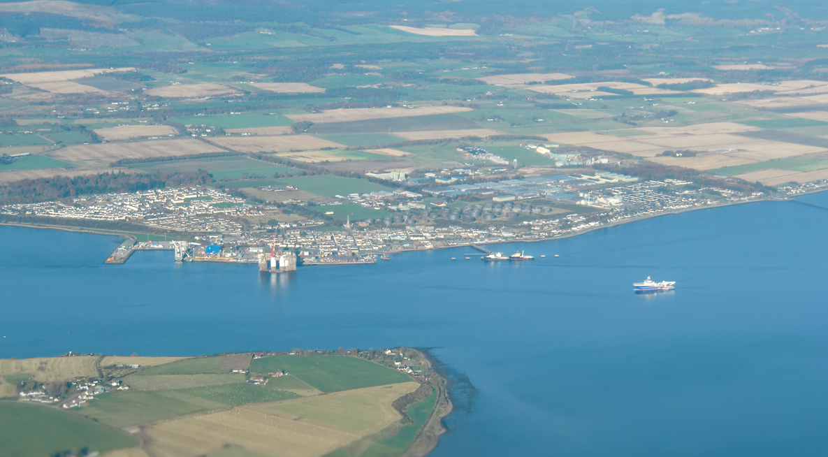 Invergordon, Easter Ross, Scotland from the air